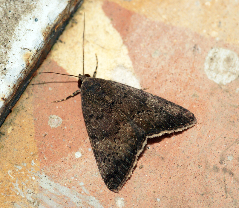 Doi Su thep, Chiang Mai From my trip to Thailand - May 28th - 4th June 2011, most moths were found at the various temples which had metal hallide bulbs fitted to them. The ones labelled 'Hang Dong' came to my 22w Actinic light. Please feel free to help aid identification or correct my proposed identifications.